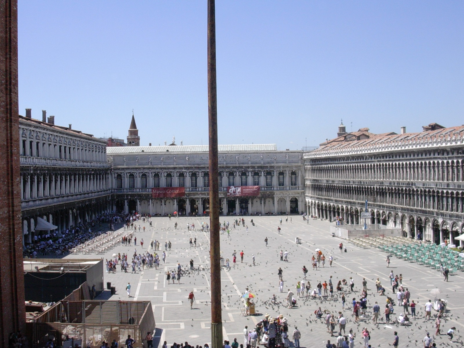 Piazza San Marco in Venezia - view from Basilica San Marco, towards the Museo Correr.